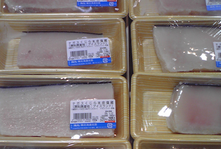 Icelandic fin whale meat on sale in Fujimaru Department Store, Obihiro, Japan on 30 December 2010.